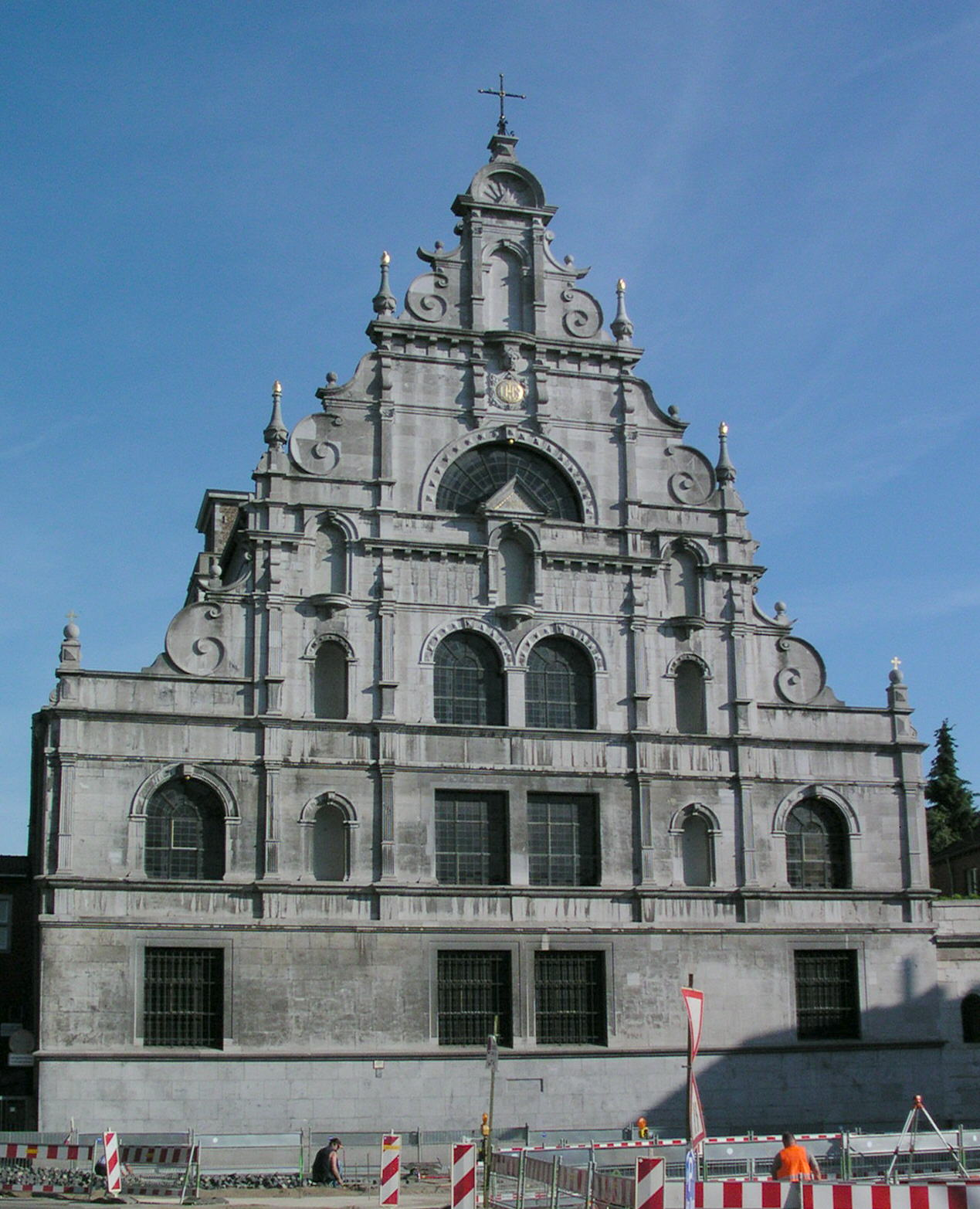 Aachen, greek-orthodox church St. Michael and St. Dimitrios in the Jesuitenstr.